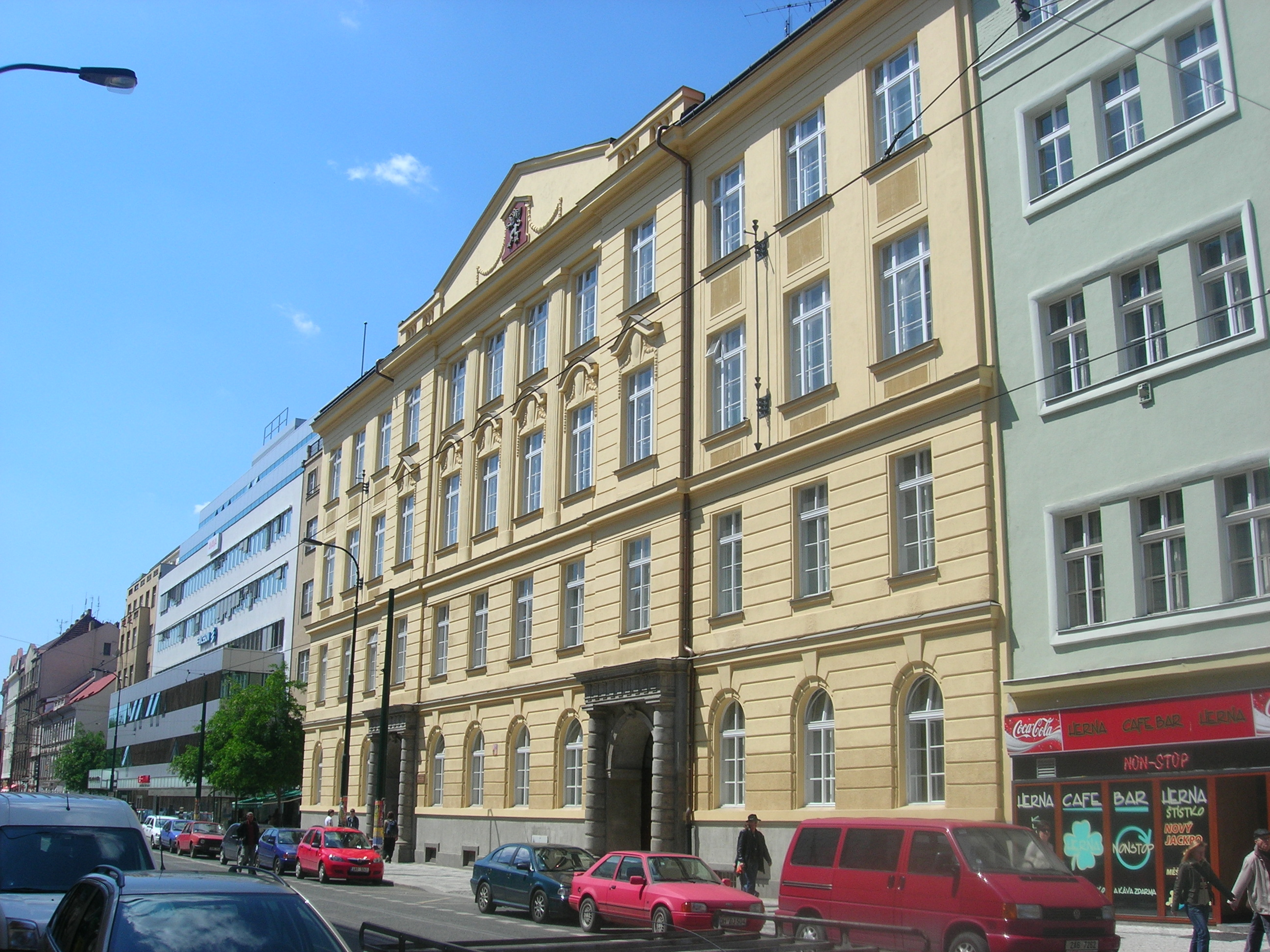 Building of Faculty of Mathematics and Physics (department of Mathematics), Charles University, Karlin, Prague, Czech Republic